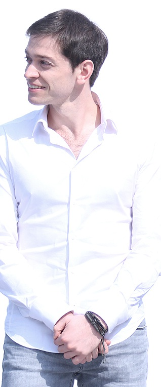 141019 위아자 다니엘 린데만